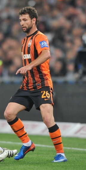 Răzvan Raţ defenders of Romania